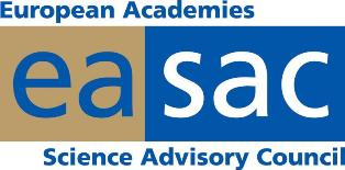 European Academies Science Advisory Council (EASAC) logo